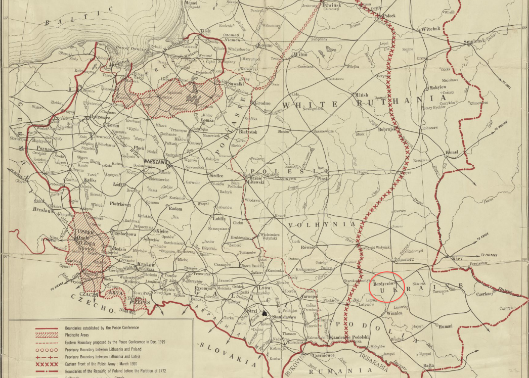 Detail of map: Poland, 1:2,000,00 Author: Henryk Arctowski Publisher: General Drafting Co. Date: 1920 Dimension 56.0 x 62.0 cm. Scale: 1:2,000,000